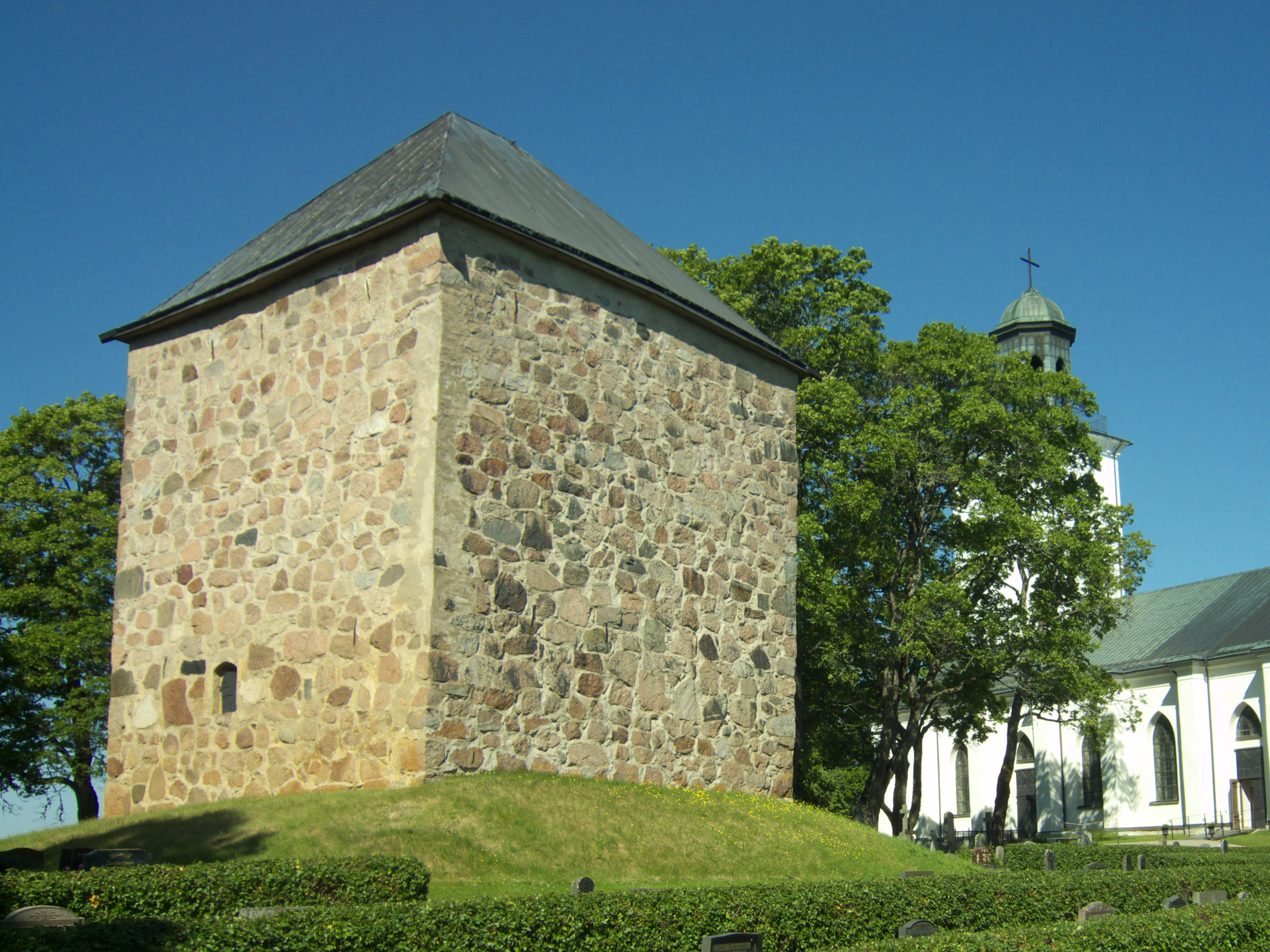 Tower by Fellingsbro church